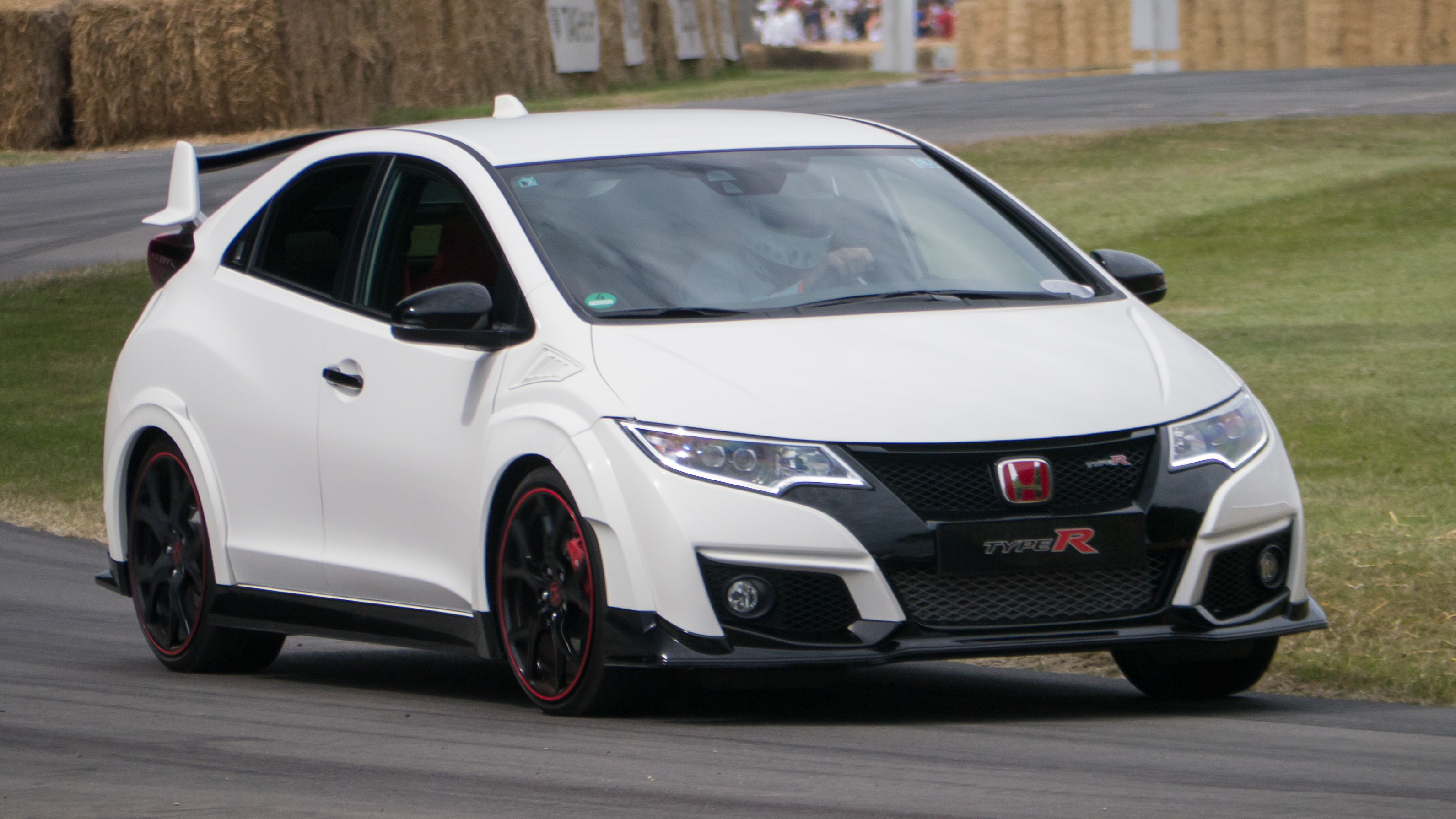 2015 Honda Civic Type R